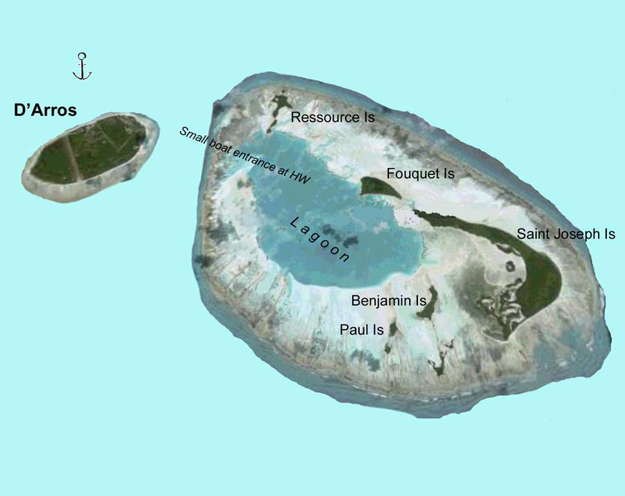 Map of D'Arros Island or Arros Island (left) and Saint Joseph Atoll (right) — of the Amirante Islands group, which are part of the Outer Seychelles (Coralline Seychelles) archipelago of coral formation. Located within the islands nation of Seychelles, in the western Indian Ocean off Africa.